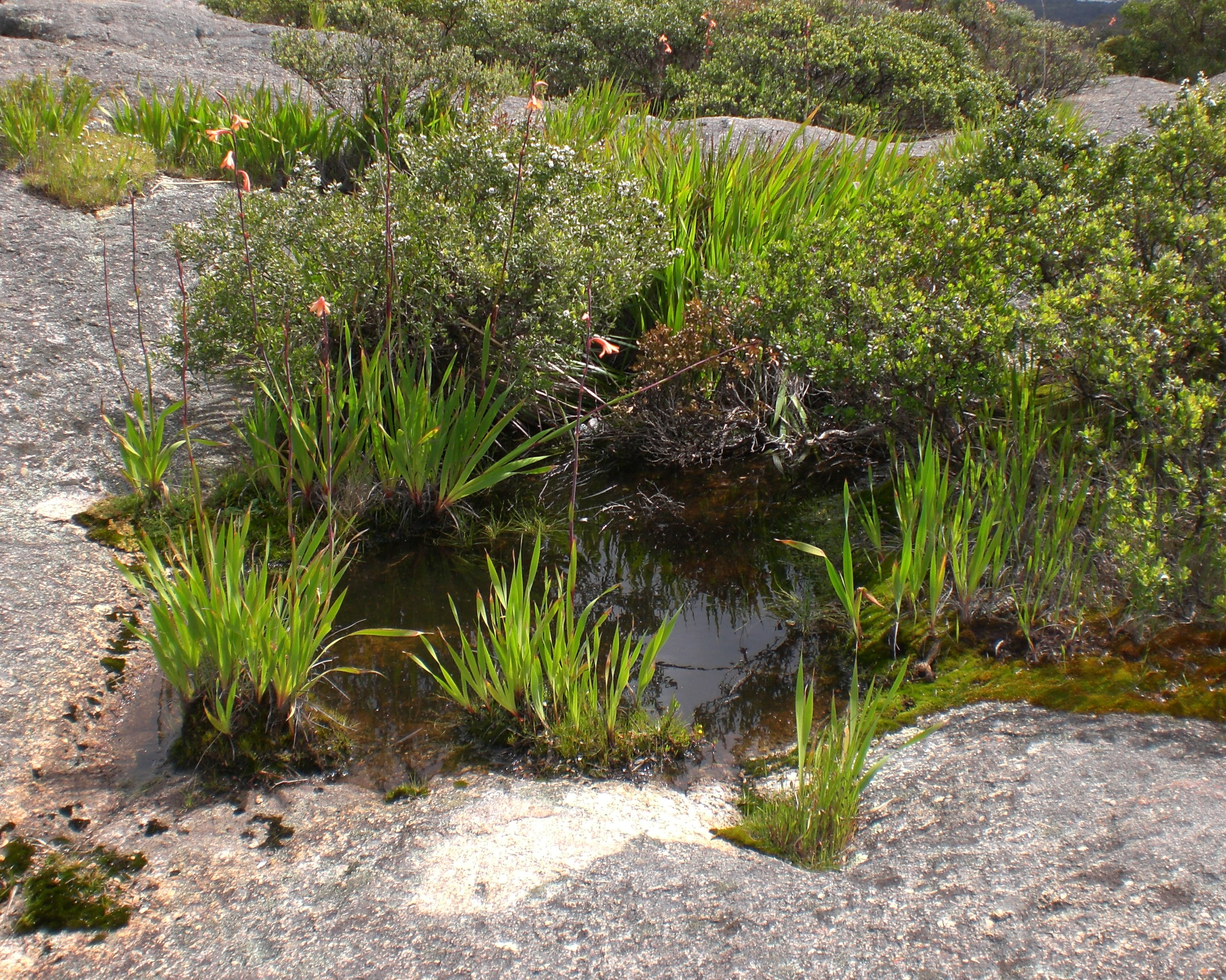 A gnamma (rock pool) on Mount Melville, Albany, Western Australia.